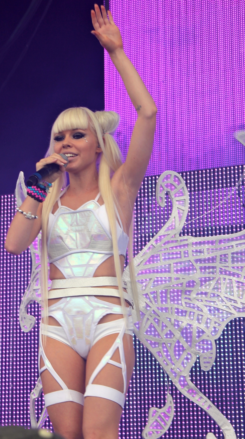 Kerli performing live during the Identity Festival on August 11th, 2012, in Houston, Texas.